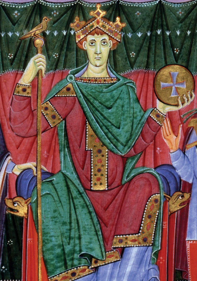 Otto III, Holy Roman Emperor.